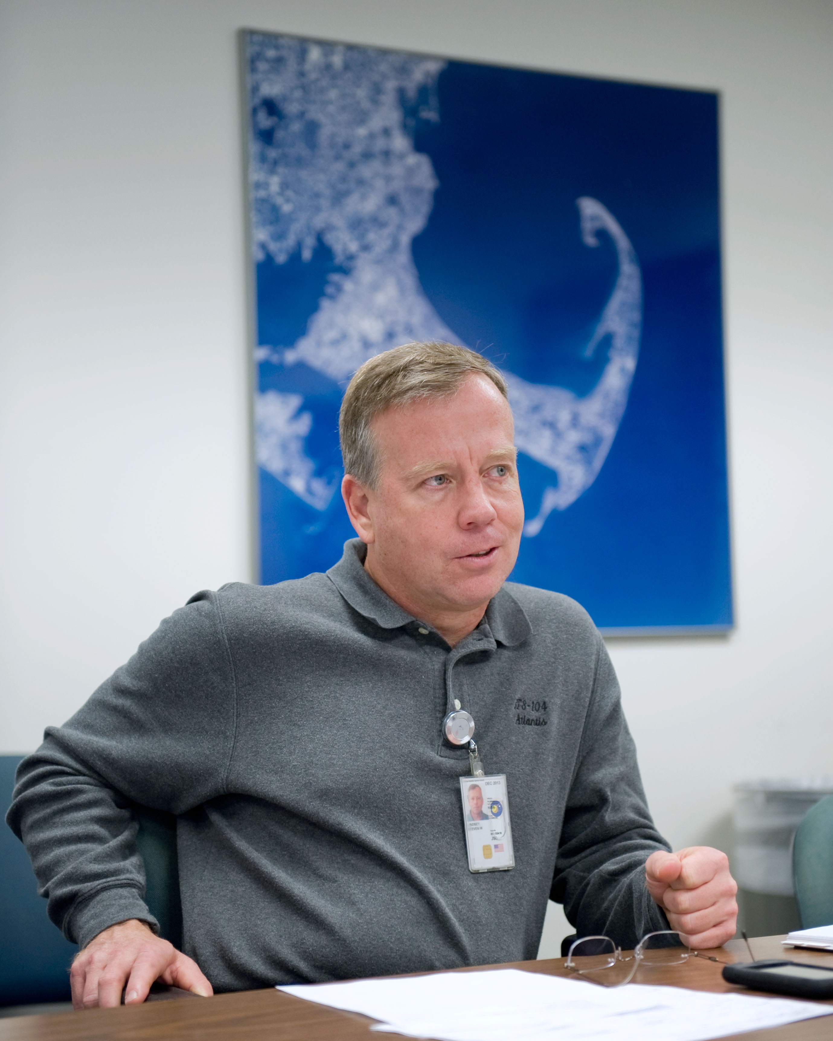 NASA astronaut Steven Lindsey, STS-133 commander, is pictured during a training scheduling session at NASA's Johnson Space Center.